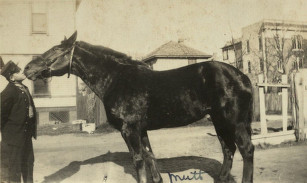 This photograph was initially owned by Mike Lathrop, U.S. Marine Corp.